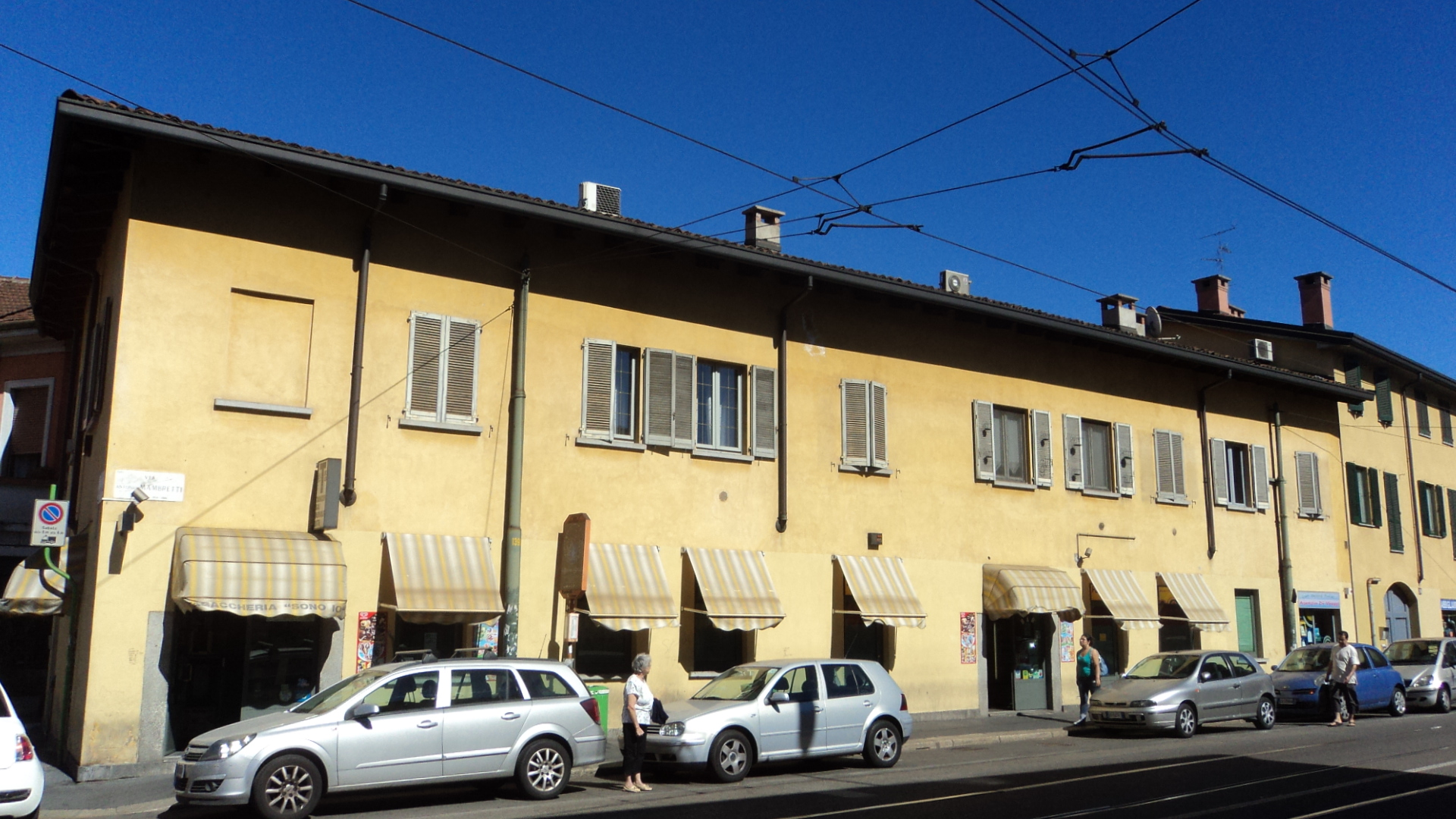 Old farmhouse of Via Cinque Maggio, 2 viewed along Via Mambretti